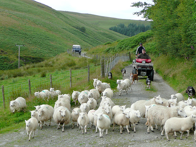 Shepherding at Ty'n Cornel, Cwm Doethie, Ceredigion The sheep were being brought in from the mountain ready for the shearing of the ewes the next day.